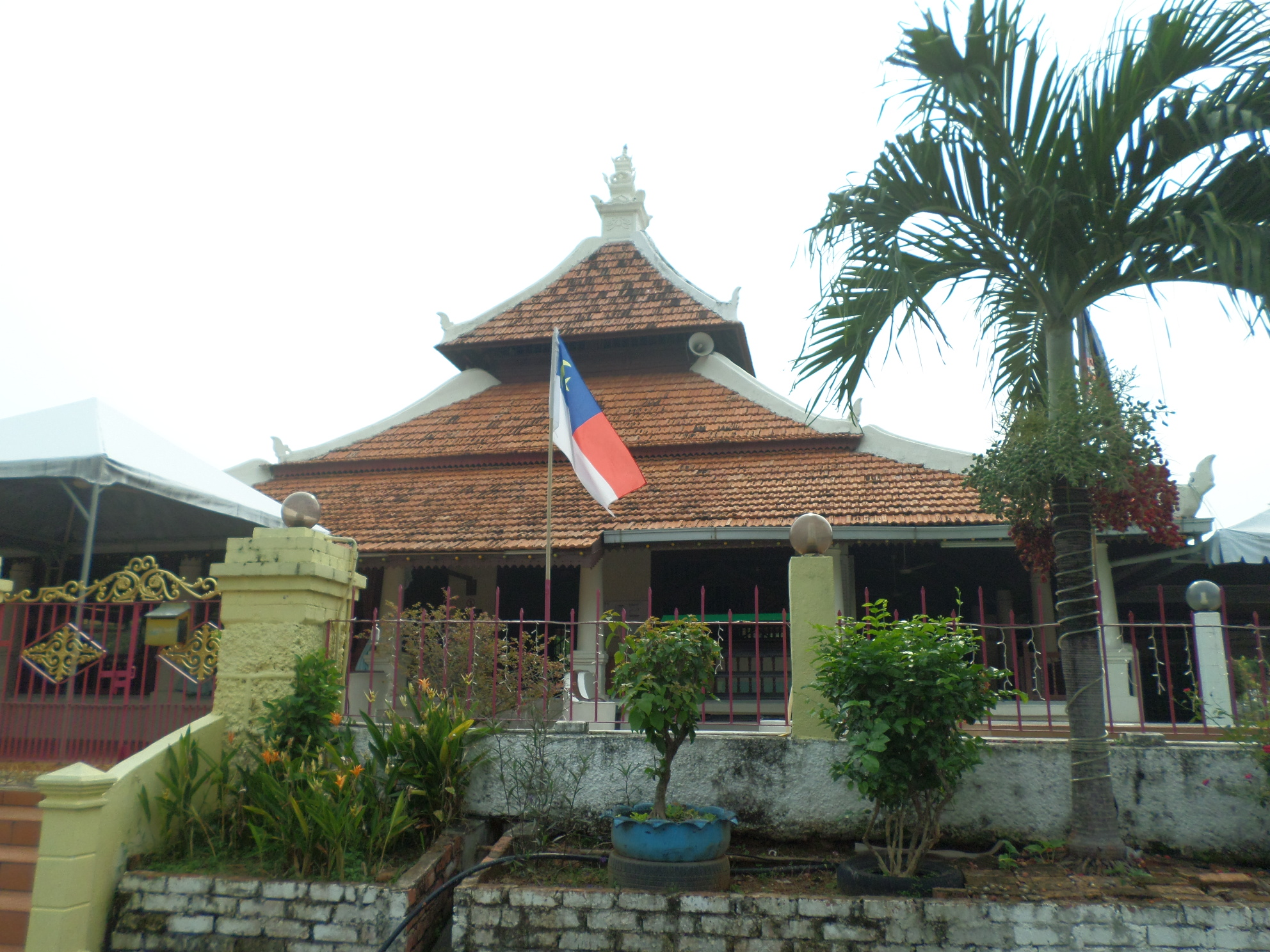 Peringgit Mosque, Peringgit, Malacca, MalaysiaBahasa Melayu: Masjid Peringgit, Peringgit, Melaka, Malaysia